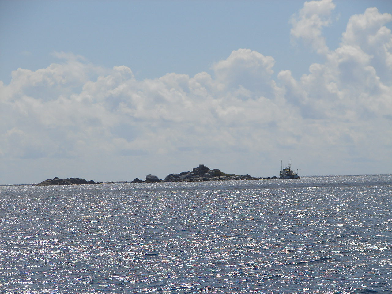 Photograph of Old Jerusalem Island, British Virgin Islands